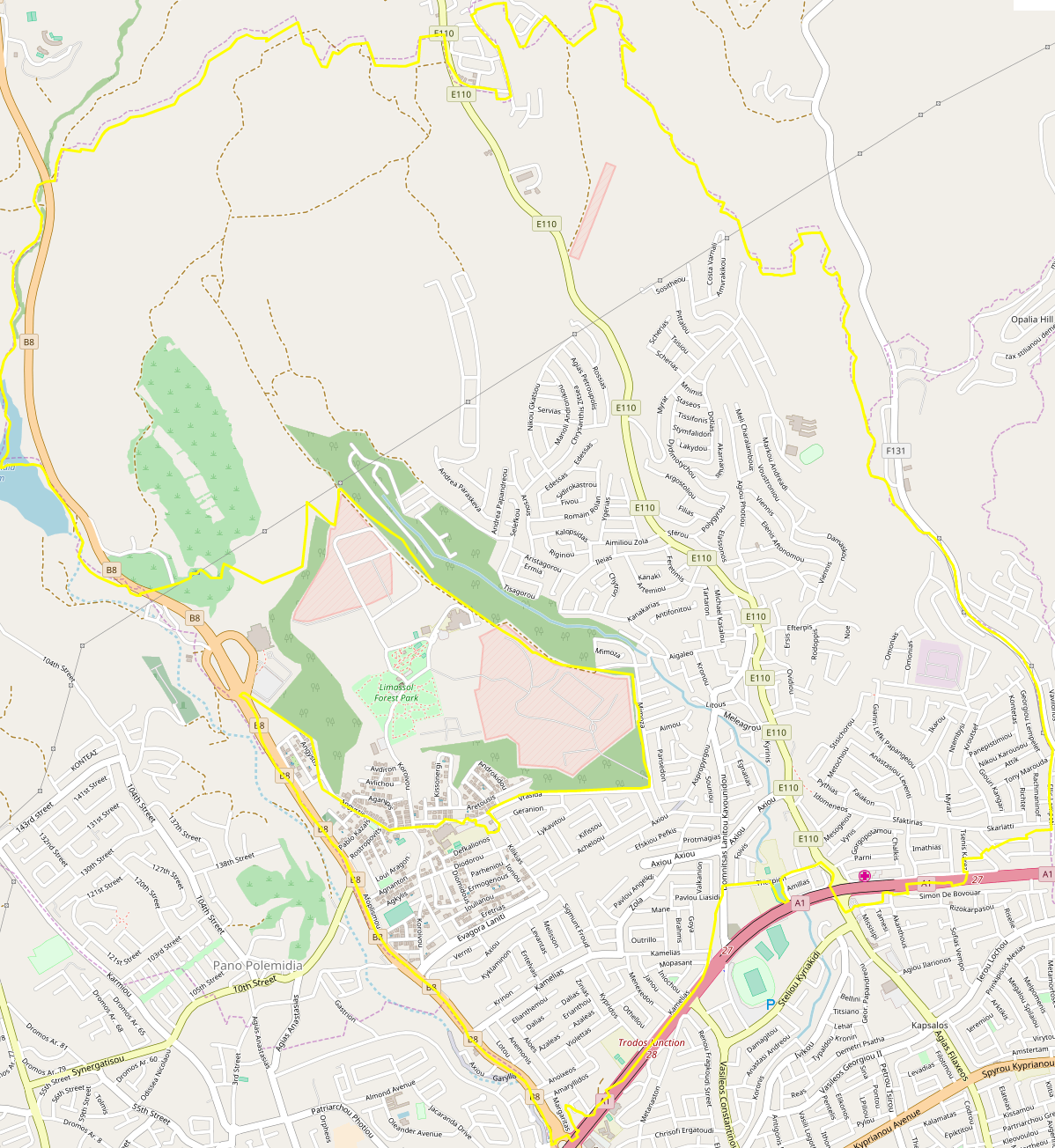 Map of Agia Fyla.